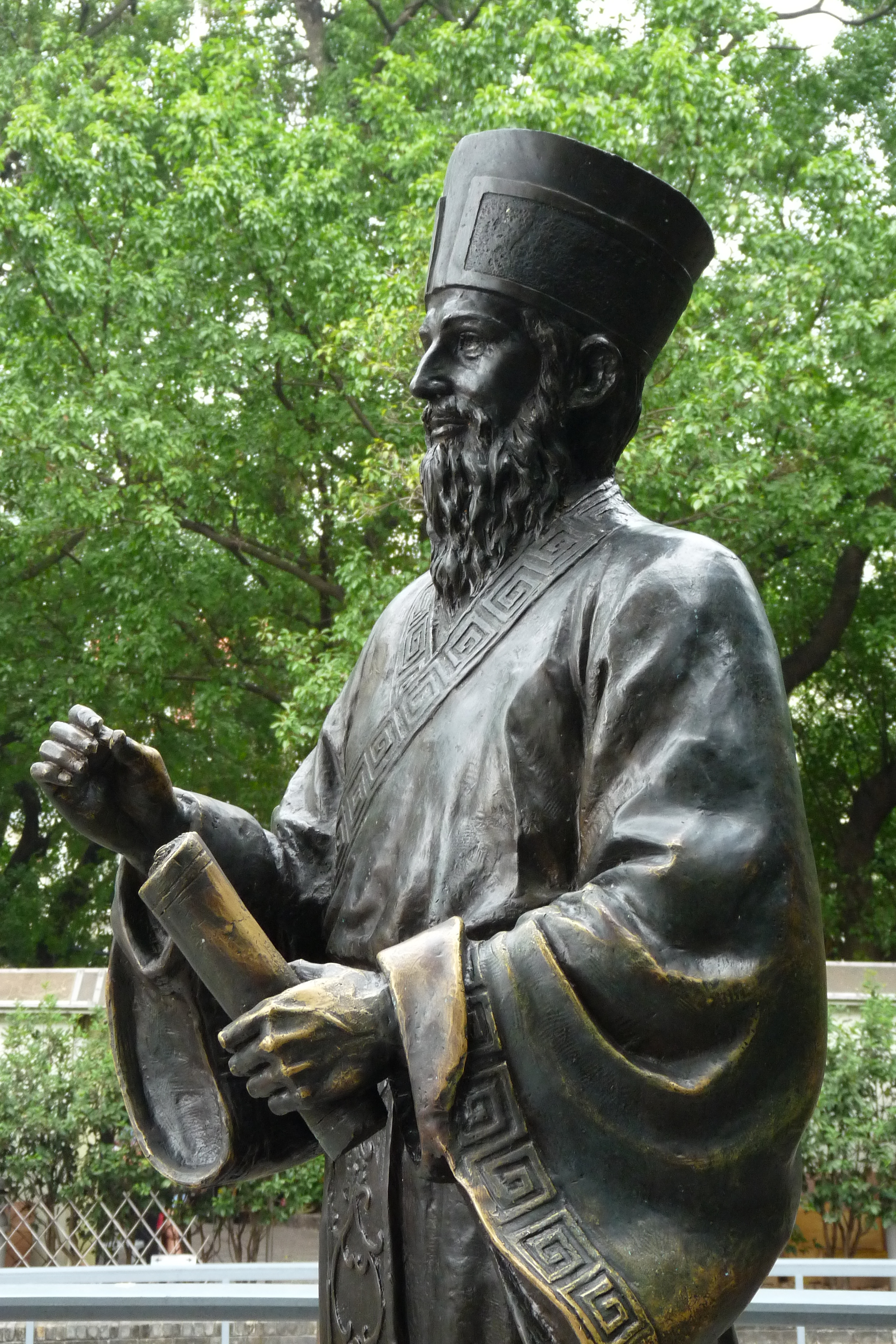 The statue of the Jesuit missionary and man of science Matteo Ricci in downtown Macau, unveiled on 7 August 2010, the anniversary of his arrival on the island.